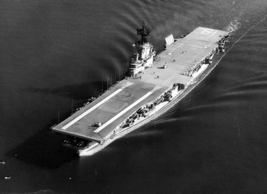 The U.S. Navy Essex-class aircraft carrier USS Hancock (CVA-19) off the Puget Sound Naval Shipyard at Bremerton, Washington (USA), on 4 March 1954. Hancock had just completed her SCB-27C modernization.